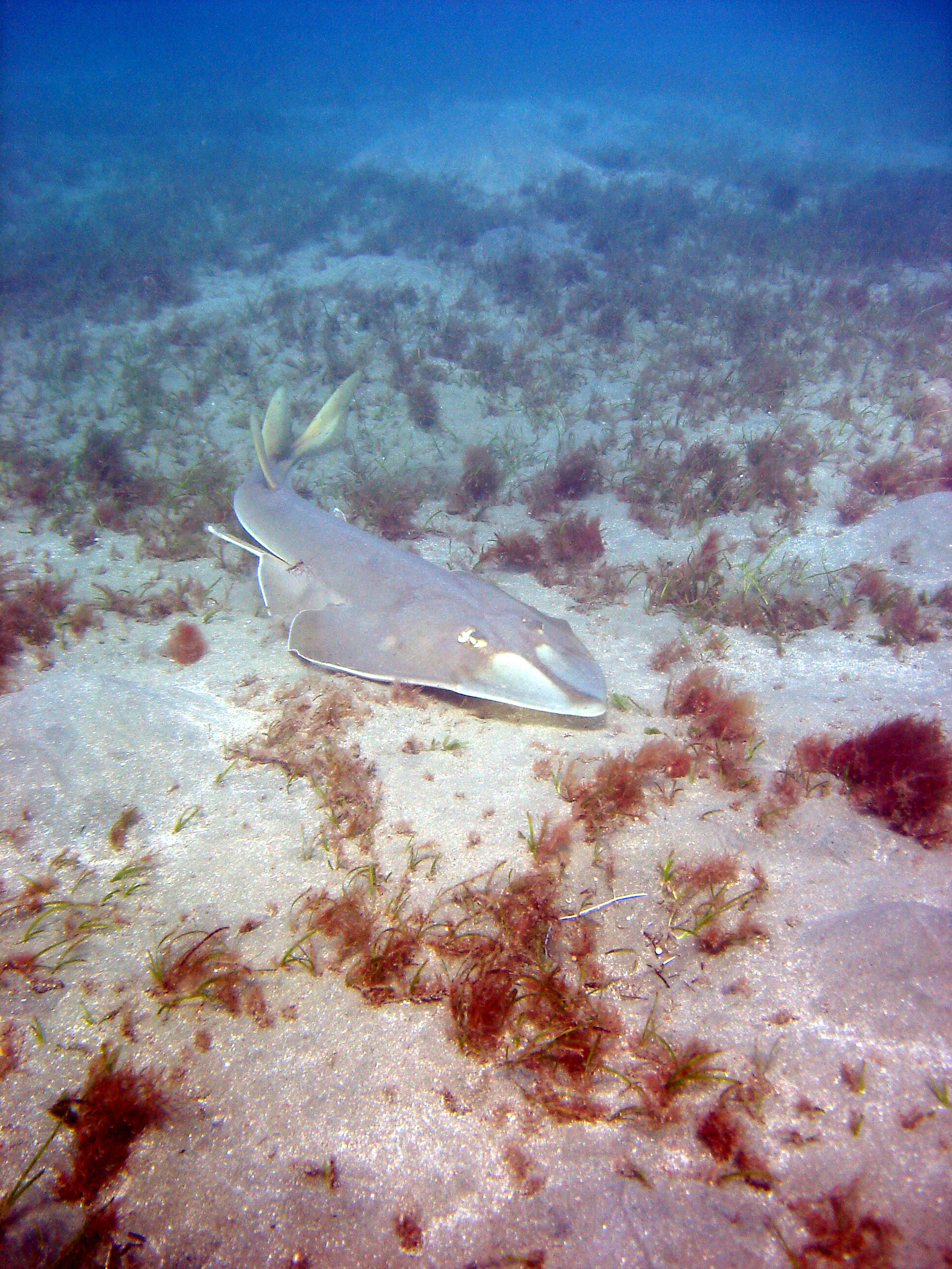 Halavi guitarfish (Rhinobatos halavi) off Marsa Alam, Egypt